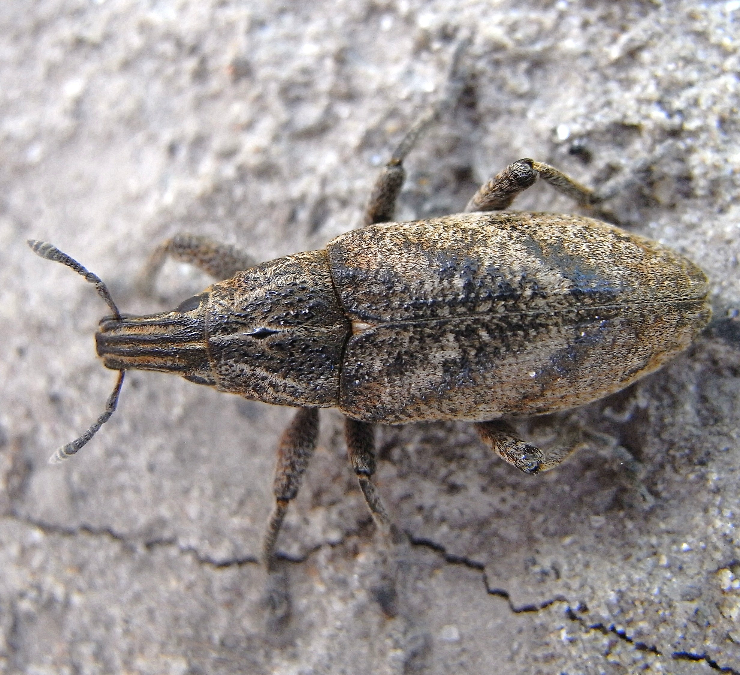 Cleonis pigra from Hungary little west of Mohacs, at 2010-05-14Ricoh R8